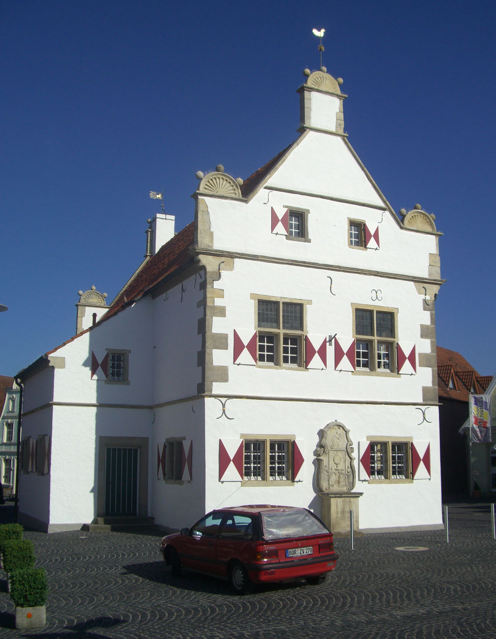 Old town hall Schöppingen